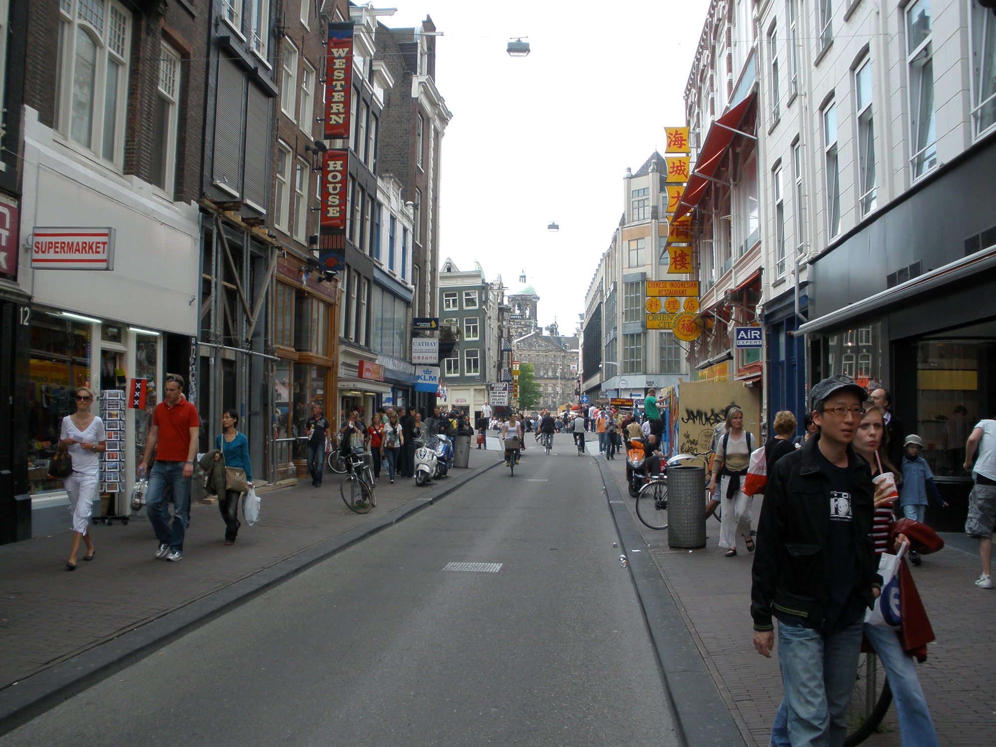 Oude Doelenstraat in Amsterdam, the Netherlands, looking west towards the Royal Palace